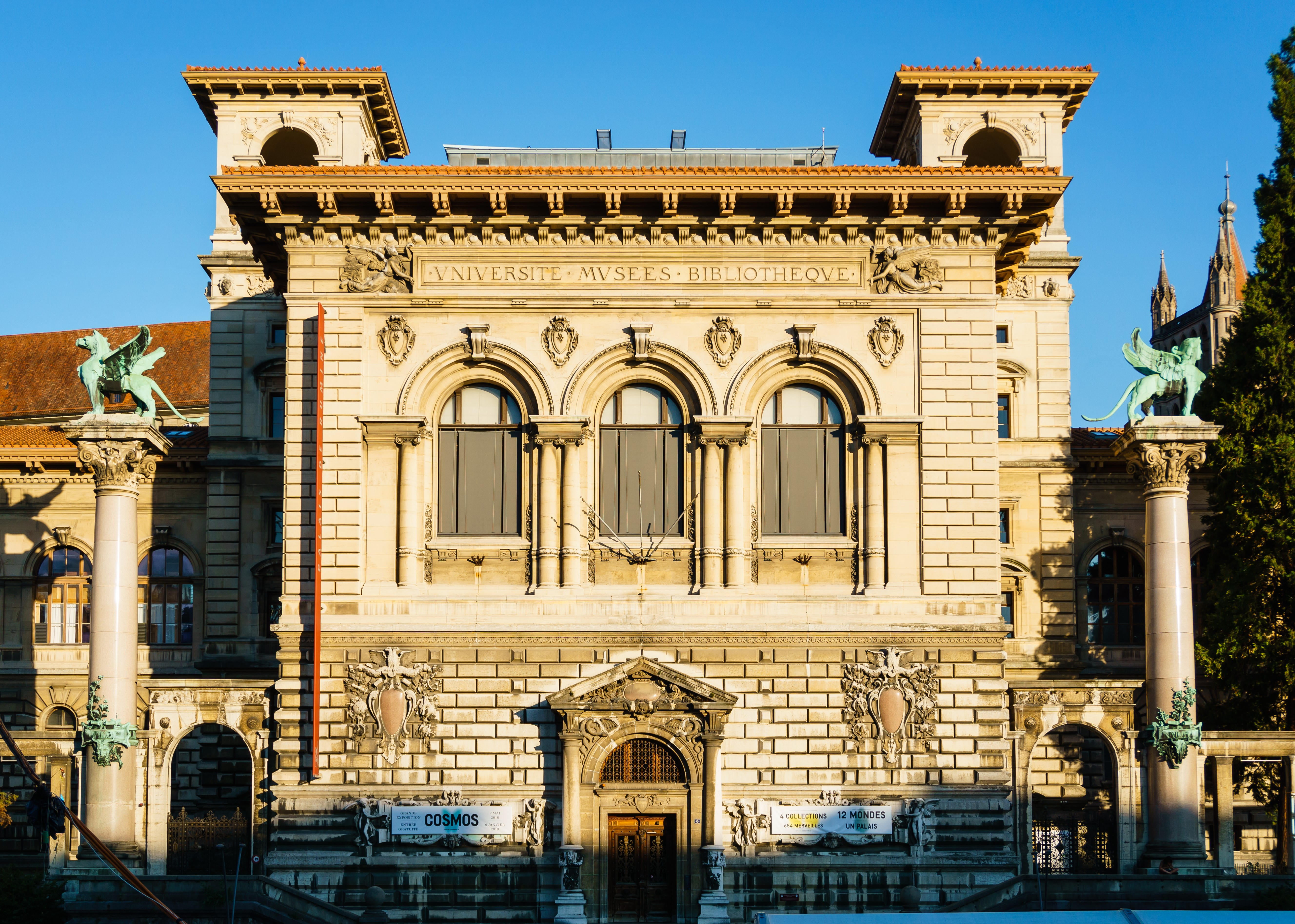 Palais de Rumine, Lausanne, Switzerland Hosts the Cantonal and University Library of Lausanne, Cantonal Museum of Fine Arts, Cantonal Museum of Archeology and History, Cantonal Museum of Money, Cantonal Museum of Geology and Cantonal Museum of Zoology.